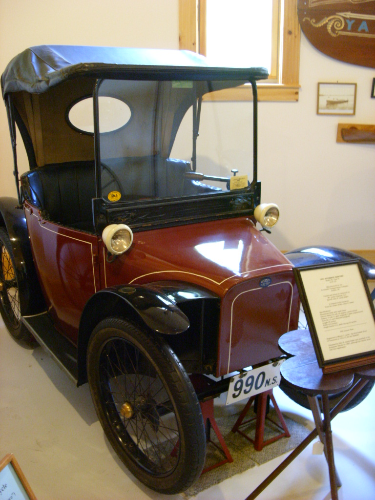 1921 Automatic Electric Pleasure Vehicle, Model AE, Type IV, S/N 122, built by the Automatic Transportation Company in Buffalo, NY. Now at the Yarmouth County Museum, Nova Scotia. Had an electric battery.